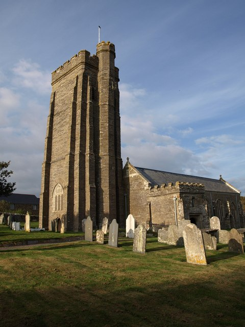 All Saints church, Thurlestone . Cherry & Pevsner: "impressive C15 tower of unusual silhouette, since the stair-turret ... is markedly higher than the tower". At first I found the lack of openings above the first stage odd, but then realised that this is the side open to westerly gales.